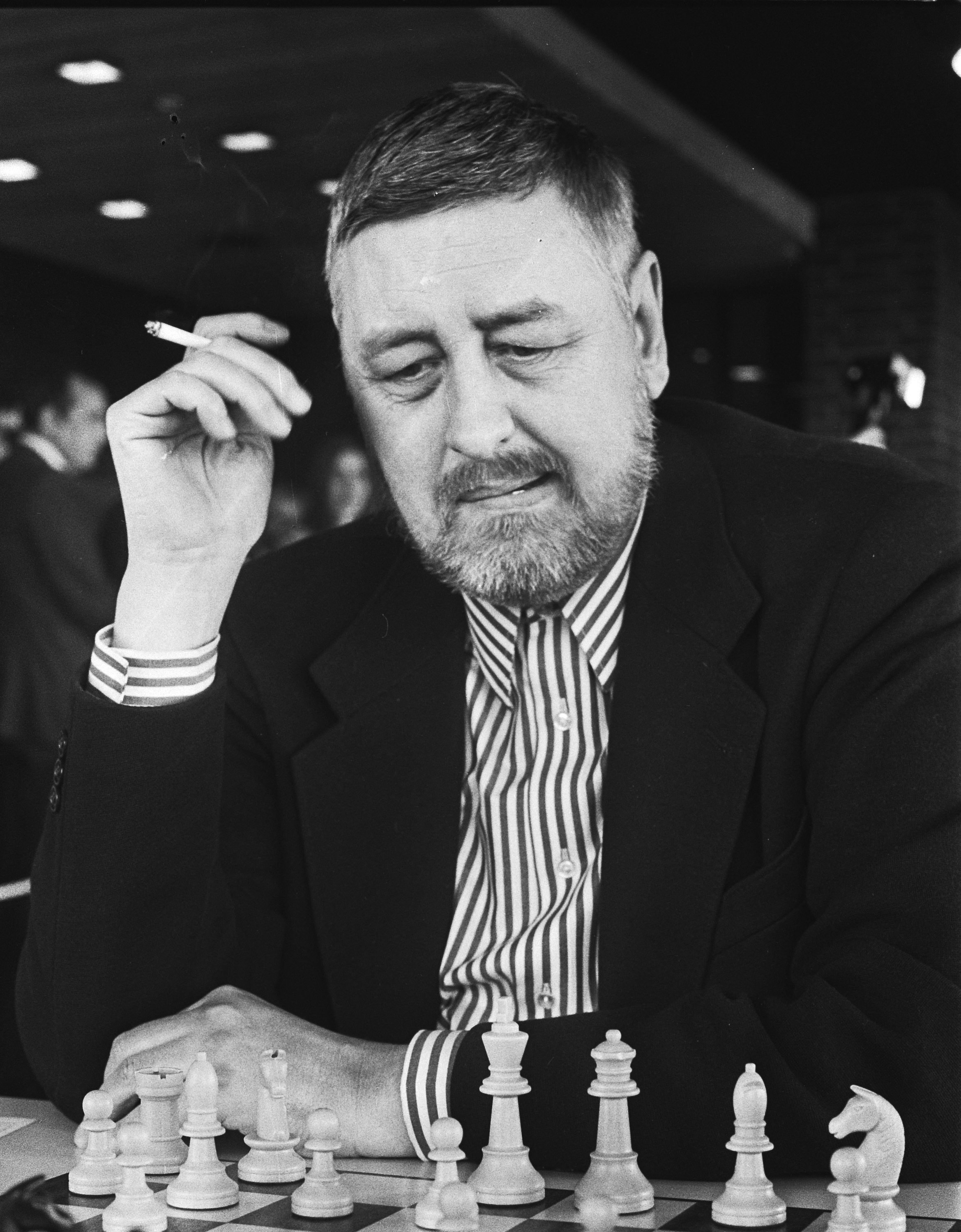 Jan Hein Donner at national championships